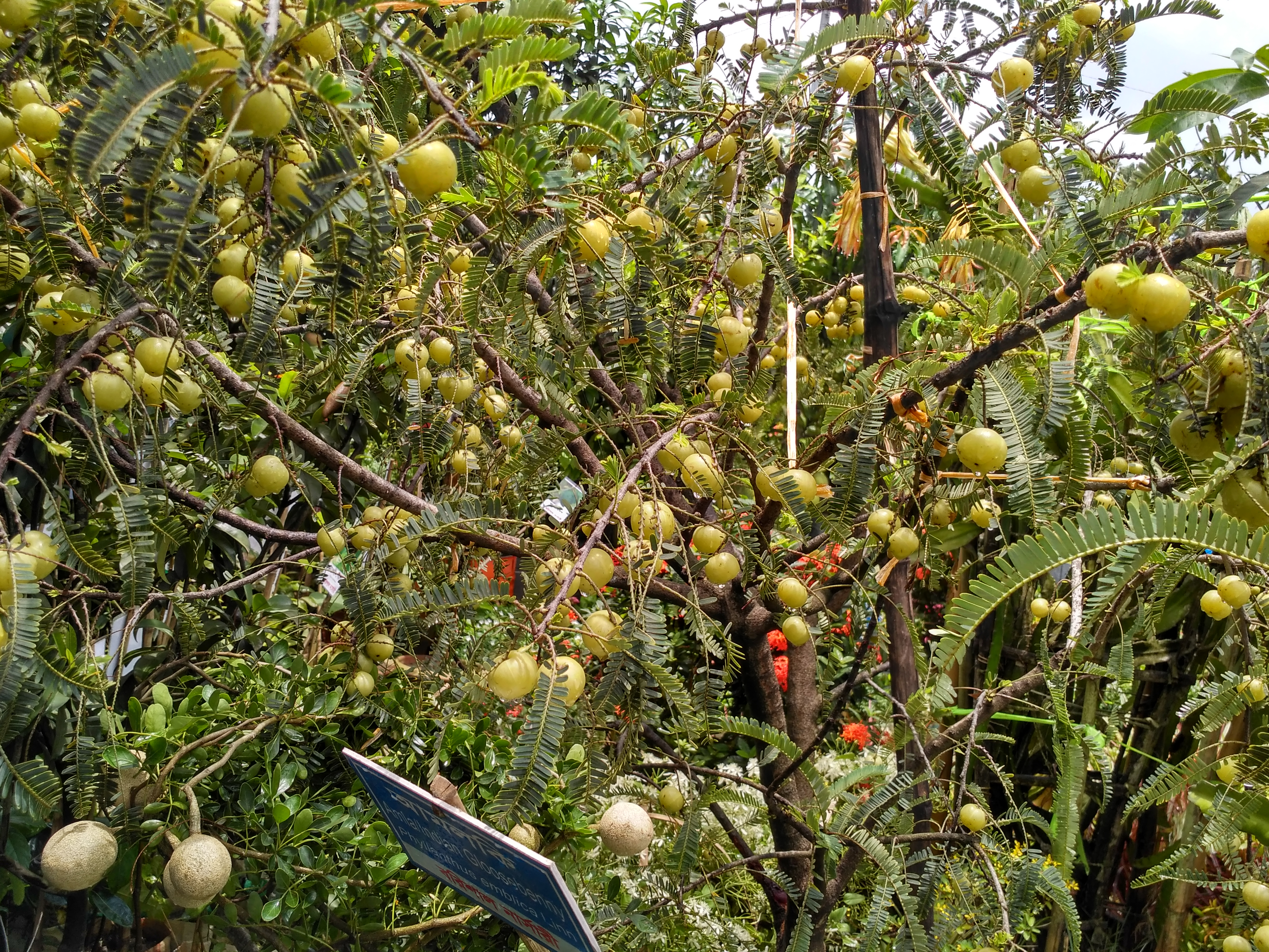 Picture of amla tree with leaves, branches and fruits. This photo was captured from National Tree Fair 2018, at Sher-e-Bangla Nagar, Dhaka, Bangladesh. Bangla : আমলকি ও এর পাতা।